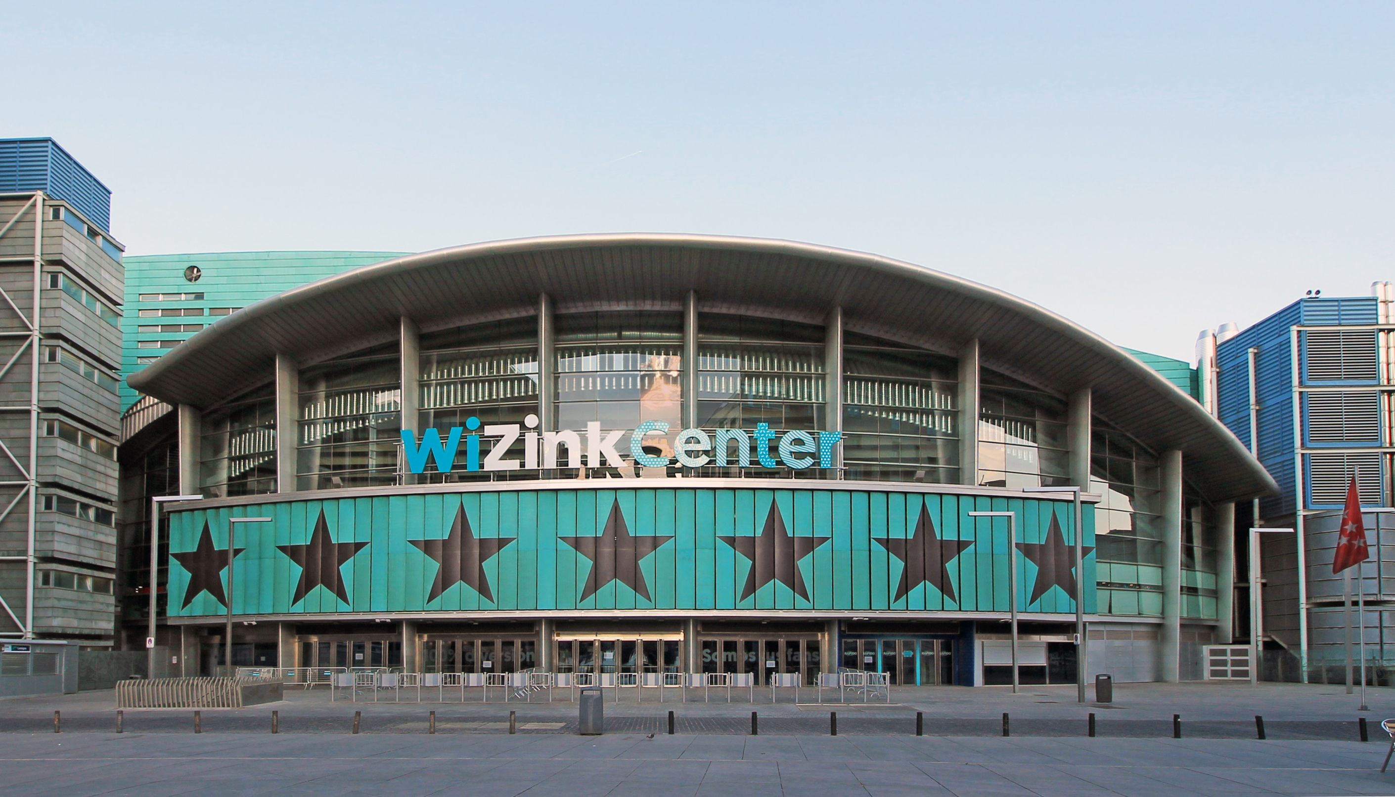 West façade of Palacio de Deportes de la Comunidad de Madrid (Madrid, Spain).